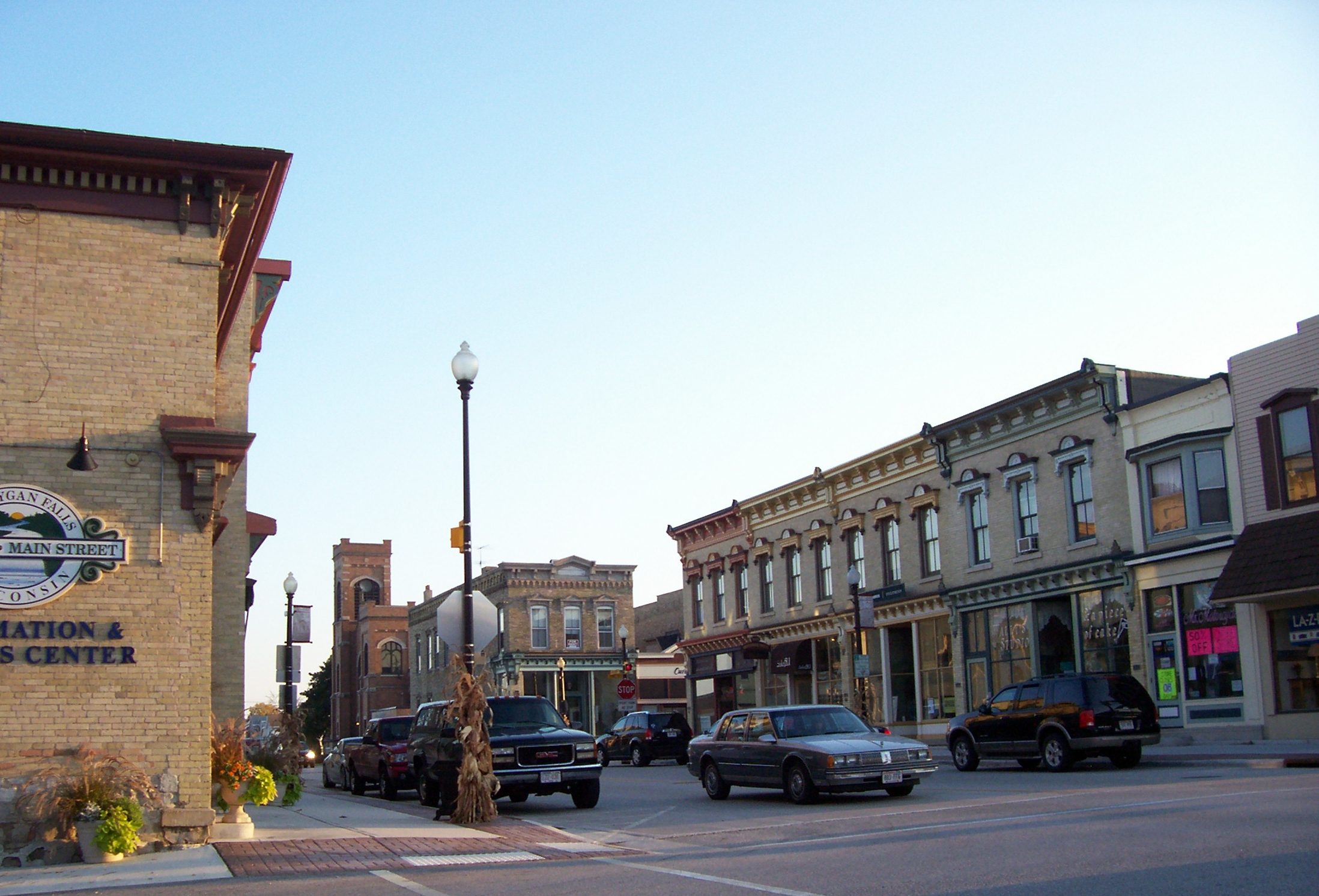 Looking east at buildings on Pine St. in the Downtown Historic District (Sheboygan Falls, Wisconsin) in Sheboygan Falls, Wisconsin.